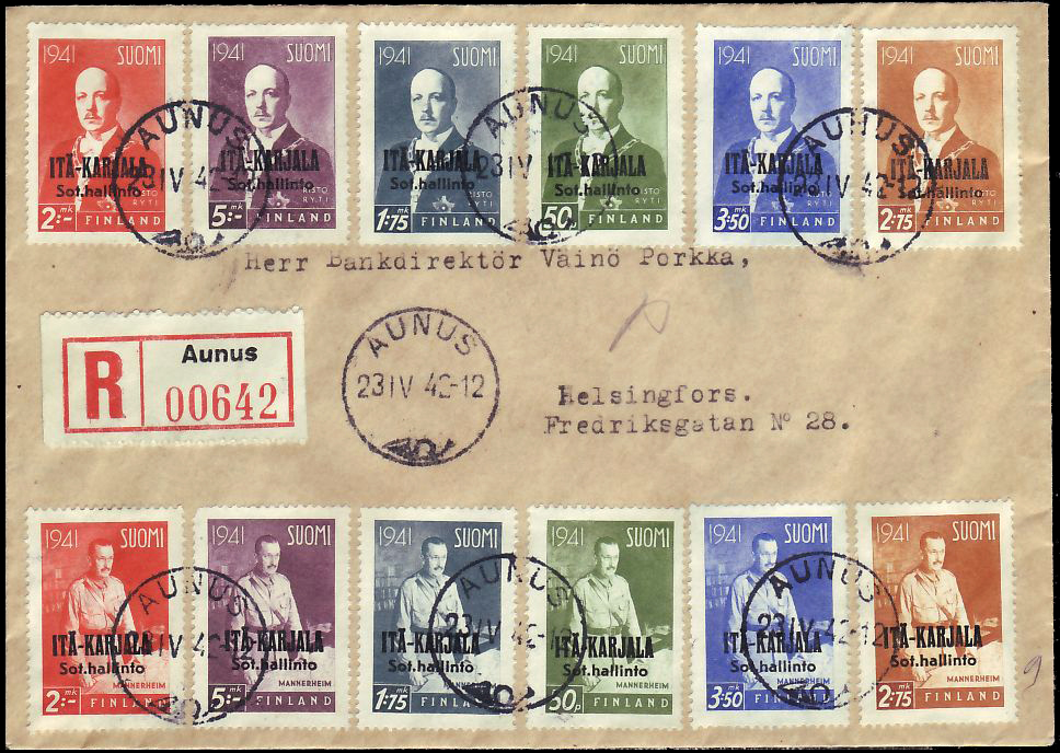 A registered mail cover franked with Finnish Eastern Karelia postage stamps, and sent on 23 April 1942 from Aunus to Helsinki.